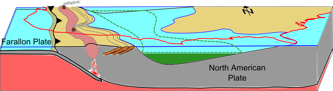 Western Interior seaway during Oceanic Anoxic Event II: Tectonics, extent of seaway, nutrient sources, and current